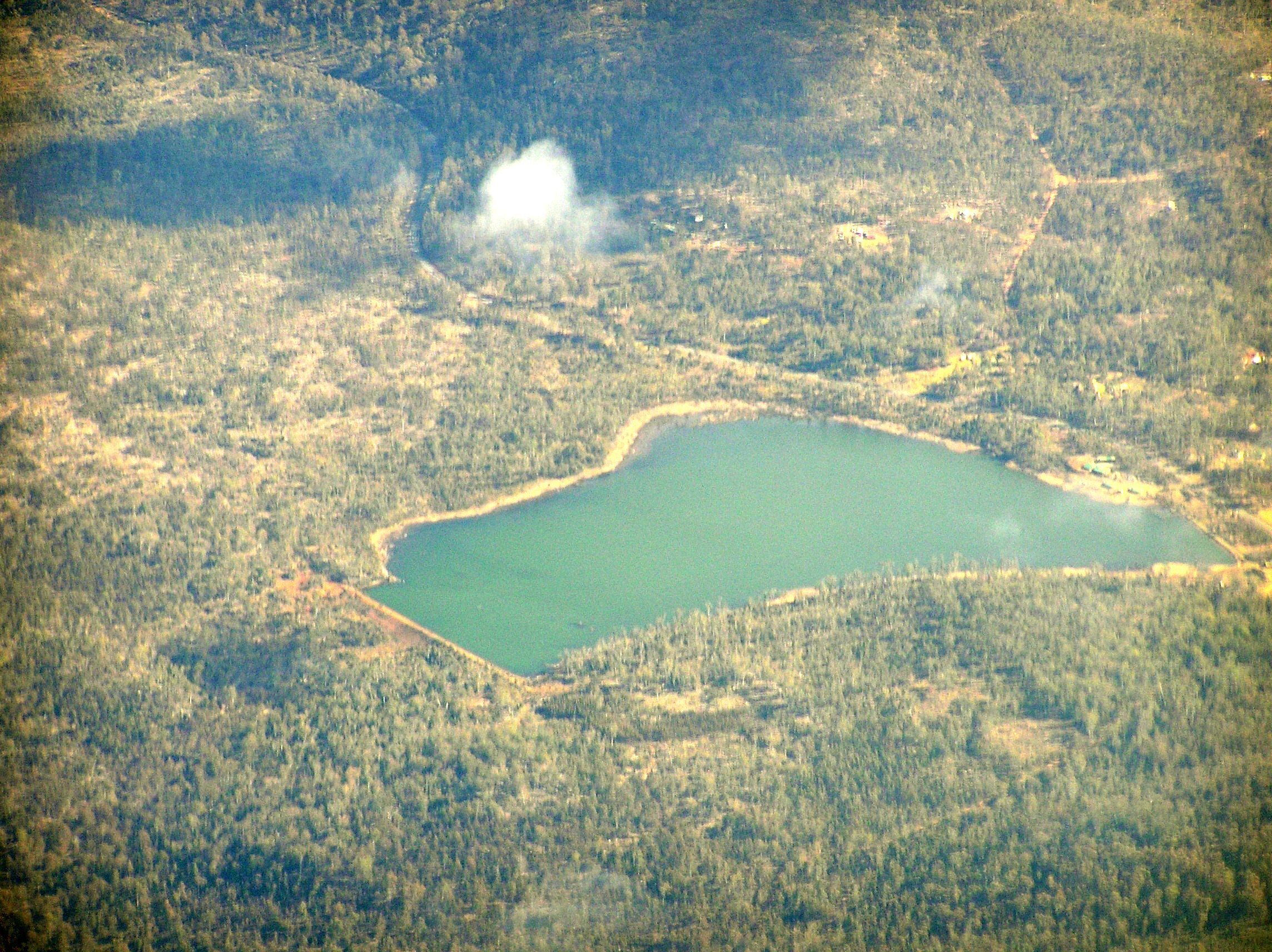 photo of Lake Yaleena near Lake Leake Tasmania